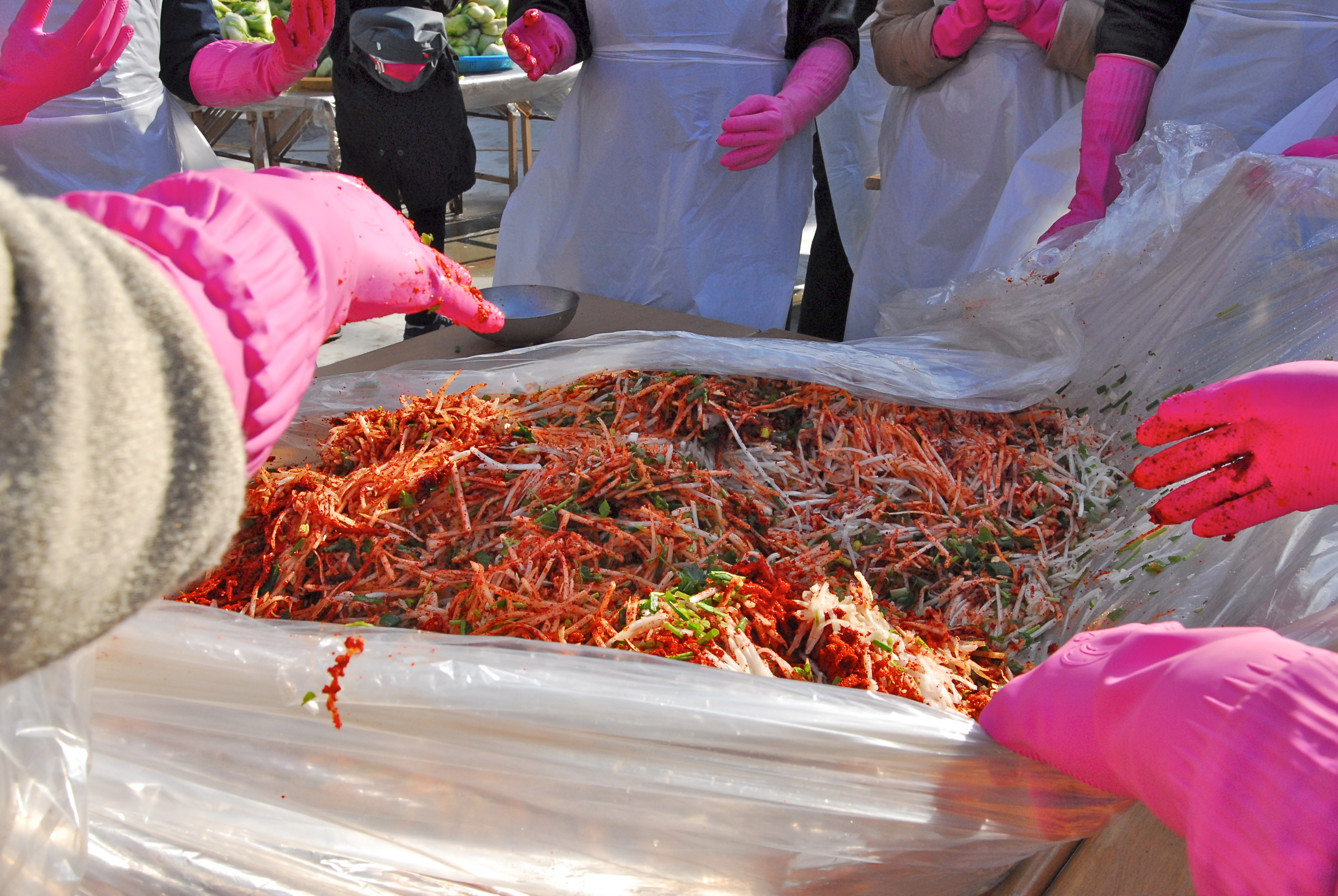 Gimjang: kimchi making for the winter season